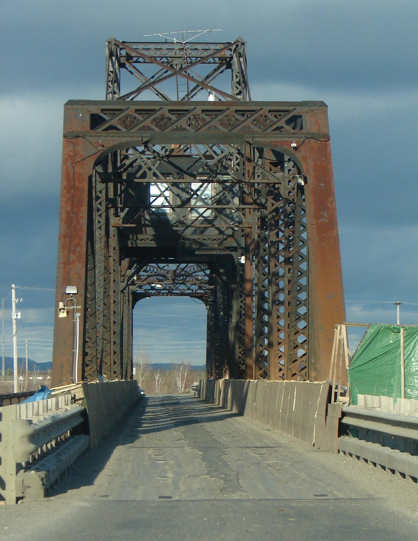 Little Current Swing Bridge, Ontario, Canada